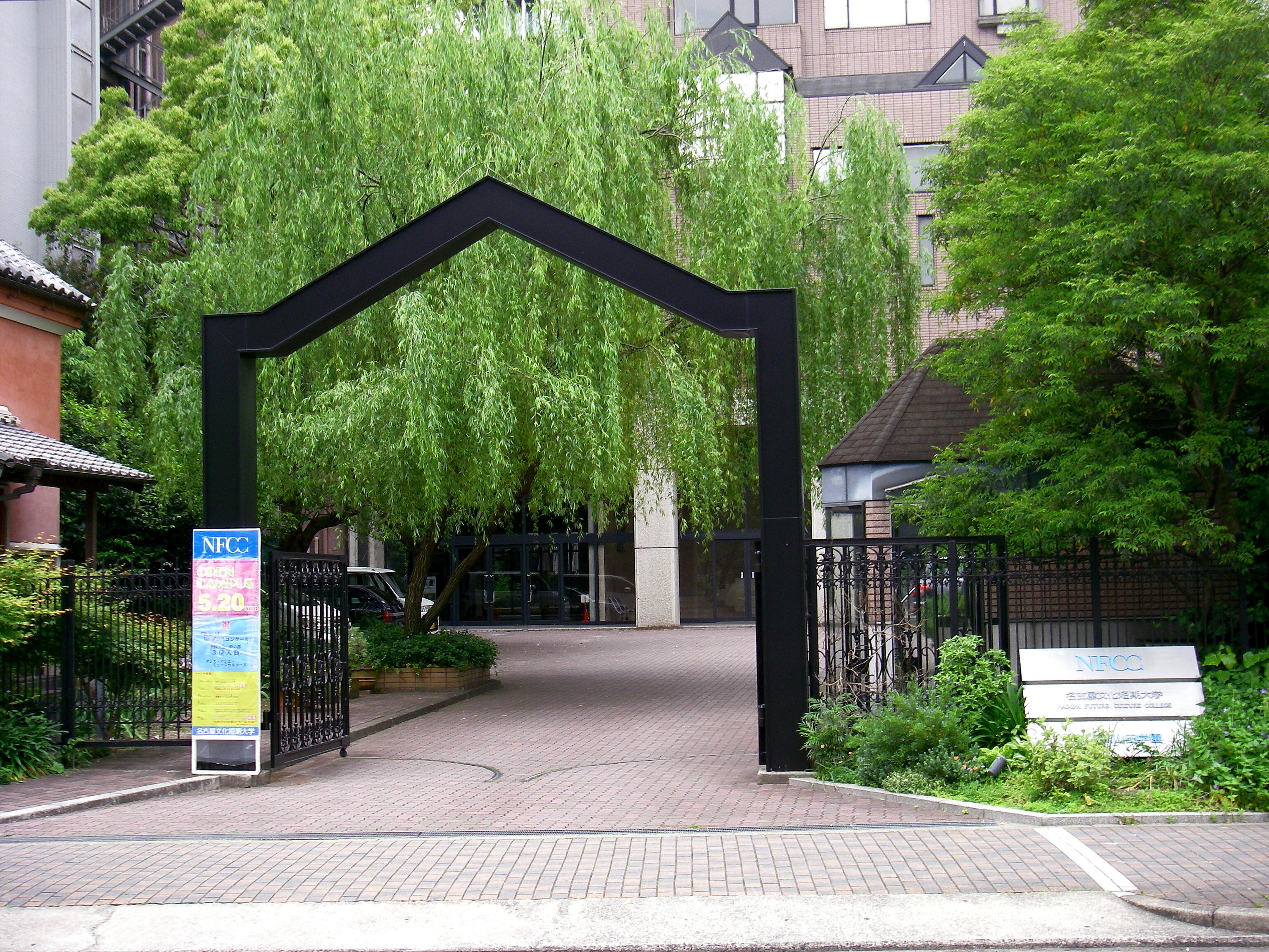 Nagoya Future Culture College(Aoi,Higashi-ku,Nagoya-city,Aichi,Japan)